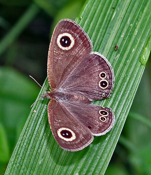 Common Four-ring (Ypthima huebneri) in Kolkata, West Bengal, India.